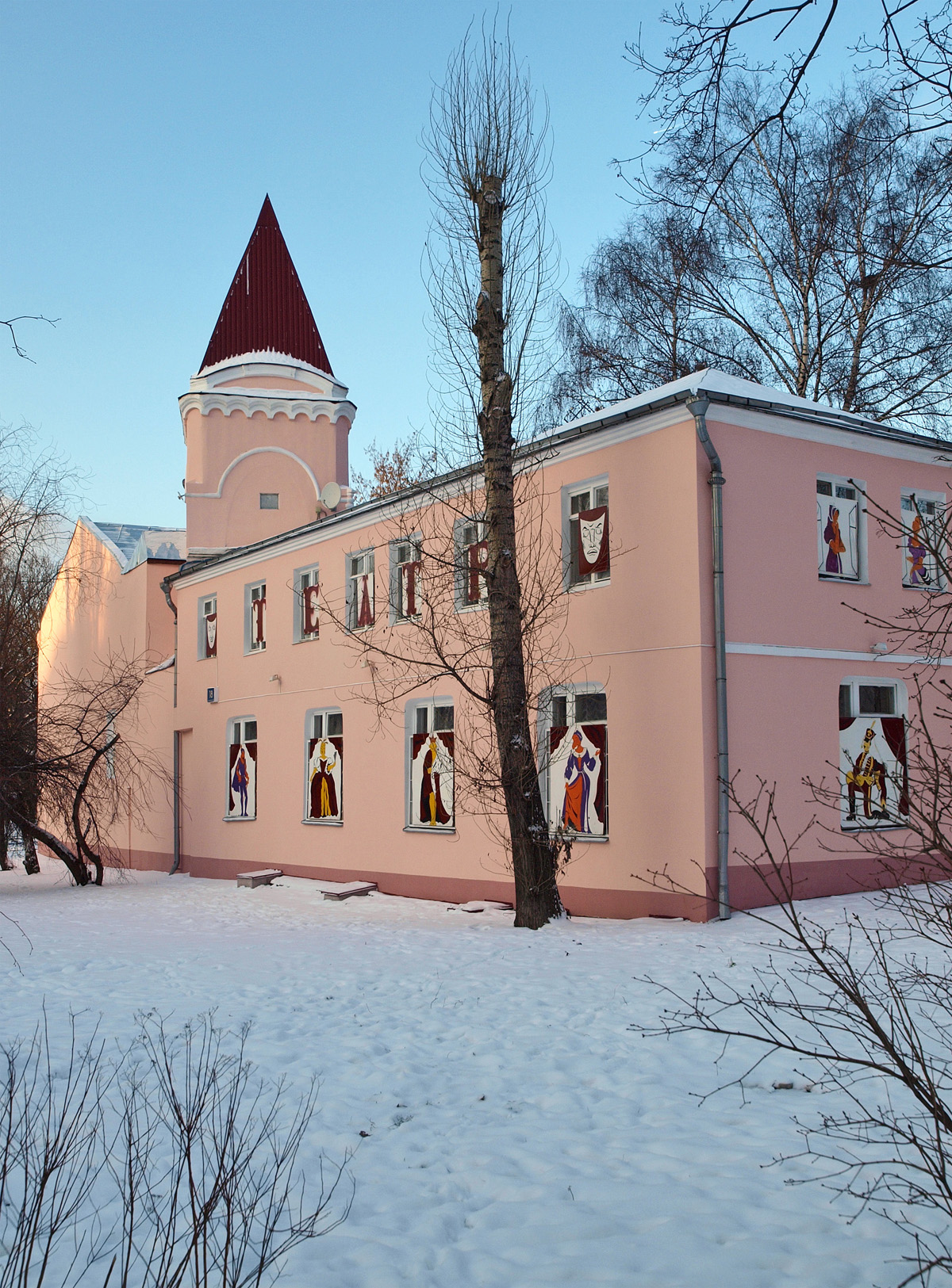 Bolshoy Fakelny Lane, Moscow (north from Tagansky park). The building is part of the Theatre for the Children.